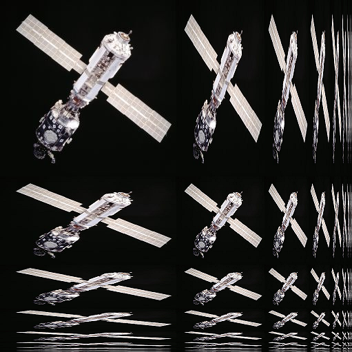 This image is an example of a ripmap.